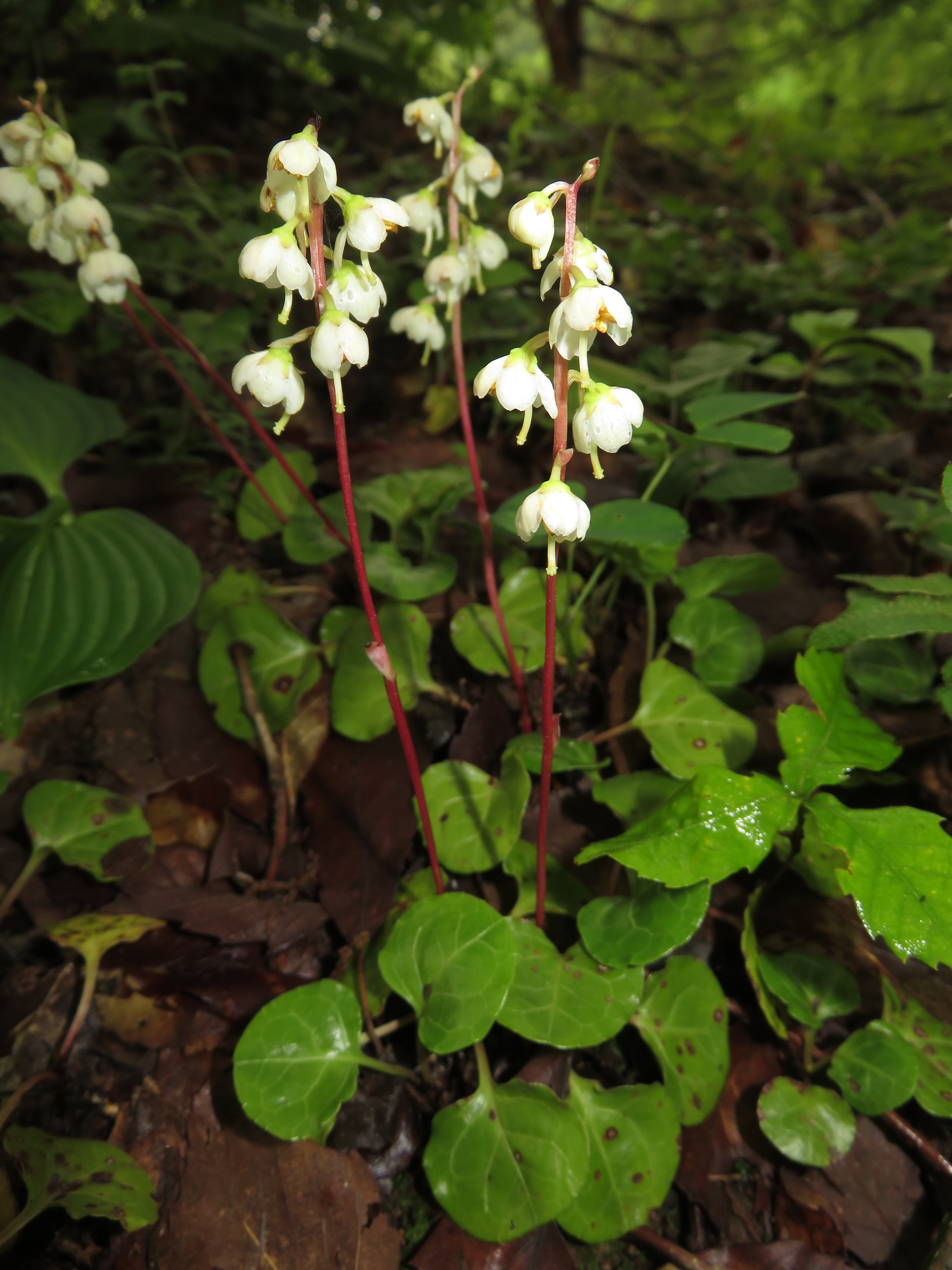 Pyrola nephrophylla, Aizu area, Fukushima pref., Japan